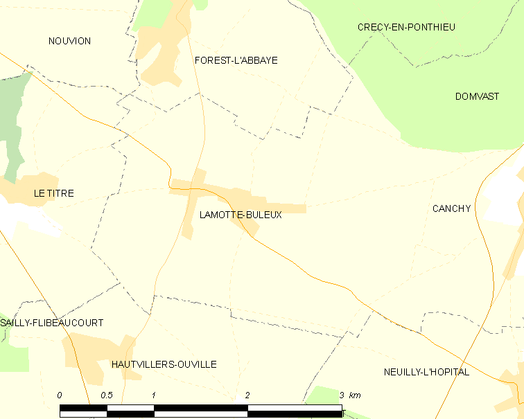 Map of French municipality Lamotte-Buleux